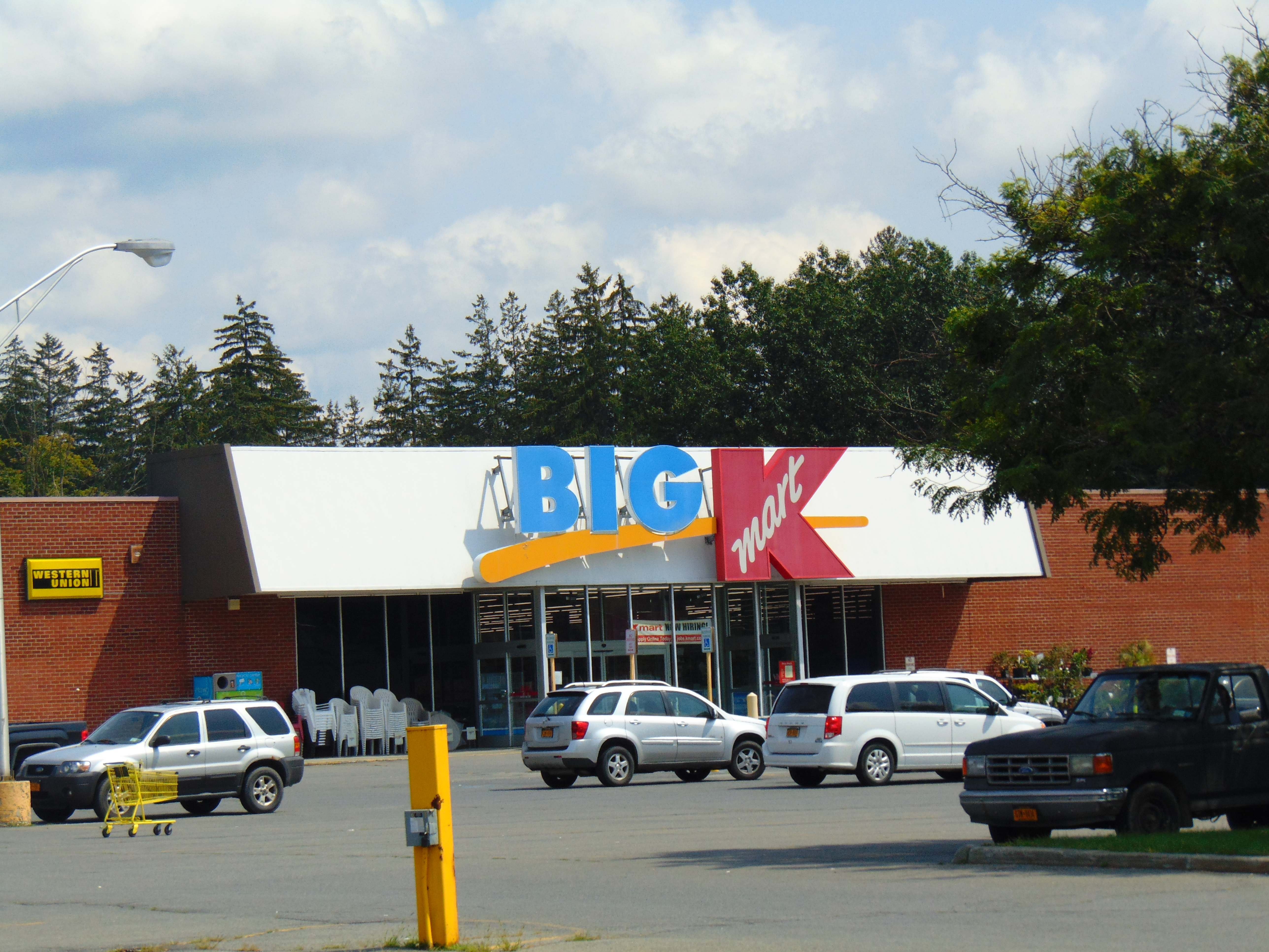 This is the Big Kmart located in Greenwich, NY. It's one of the smaller stores in the company. (Taken from my flickr)